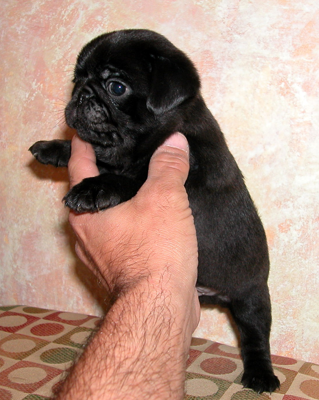 7-week old black pug puppy, Hamlet, the Puglet.